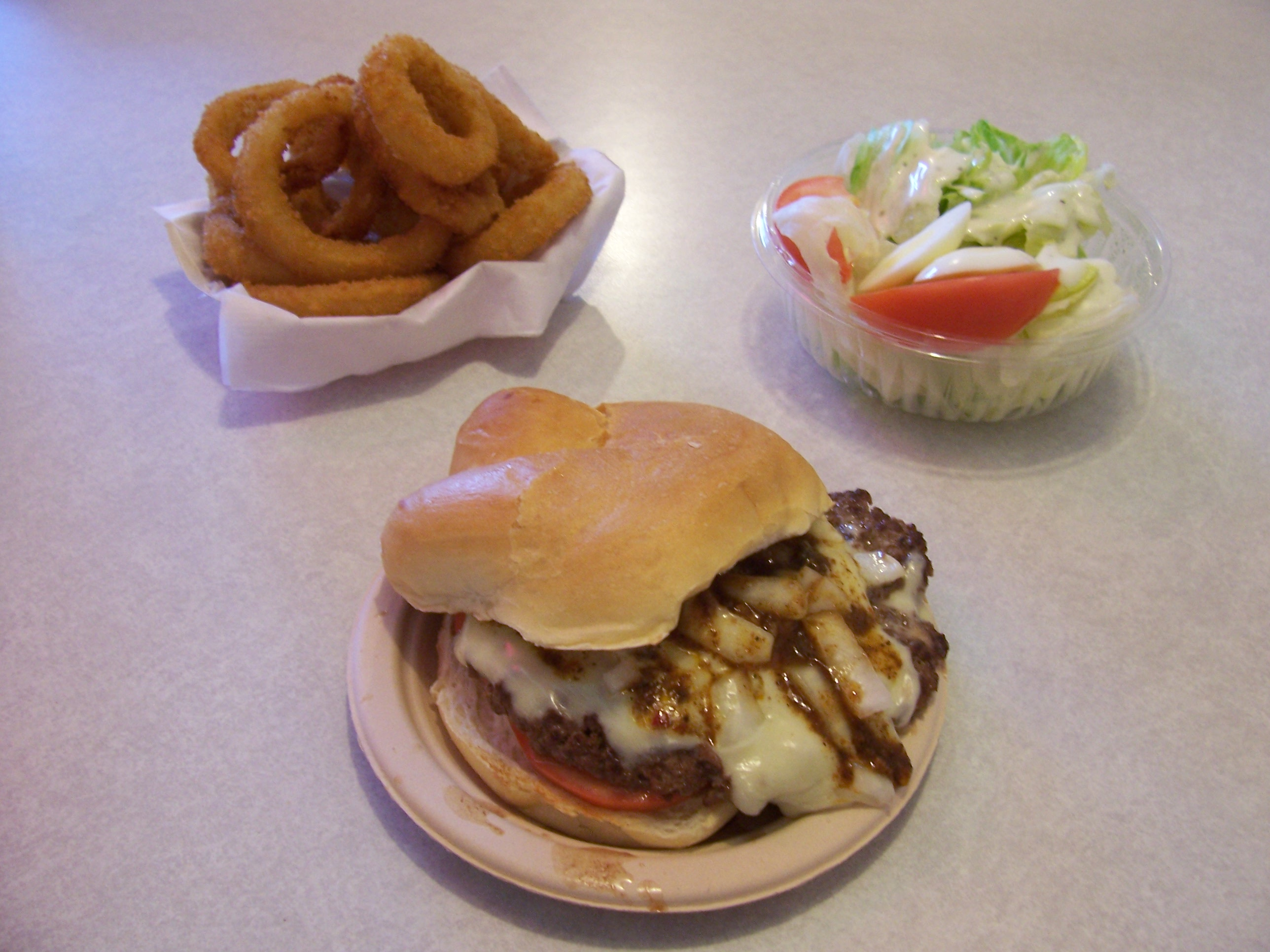 Tom Wahl's ground steak sandwich, onion rings, and side salad